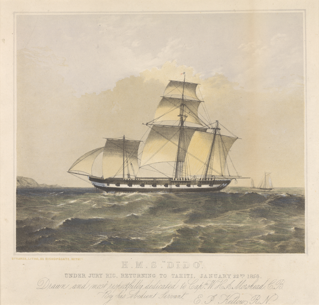 H.M.S. Dido under jury rig, returning to Tahiti, January 22nd 1856... Hand-coloured.